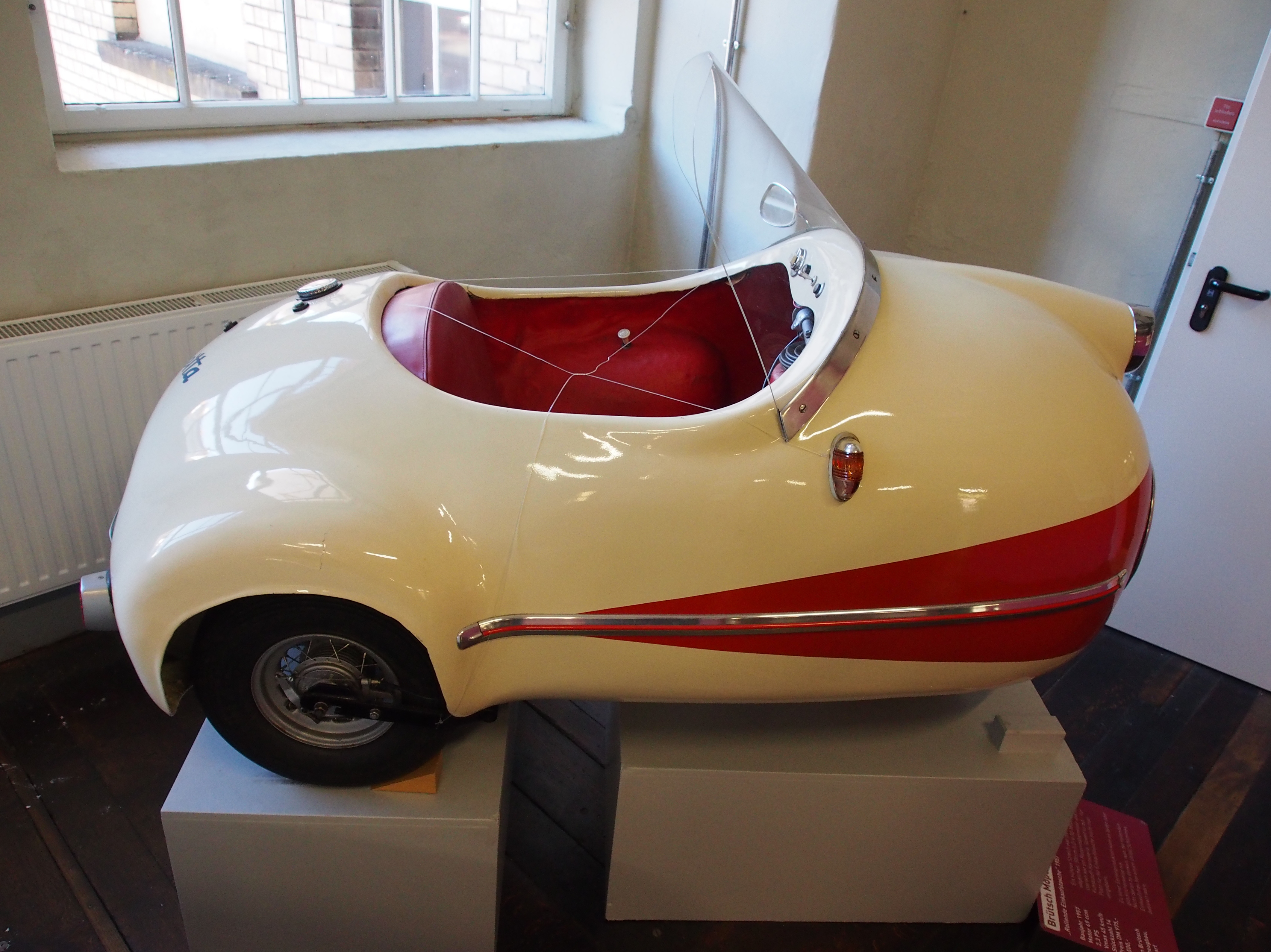 1957 Brütsch Mopetta, Rollende Einkaufstasche cabine.